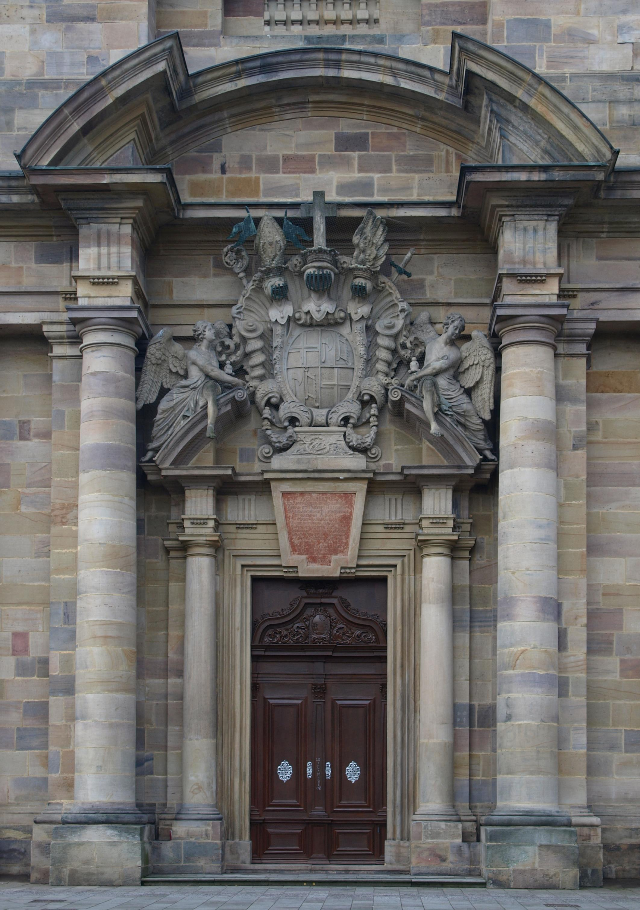 main portal of the Cathedral of Fulda